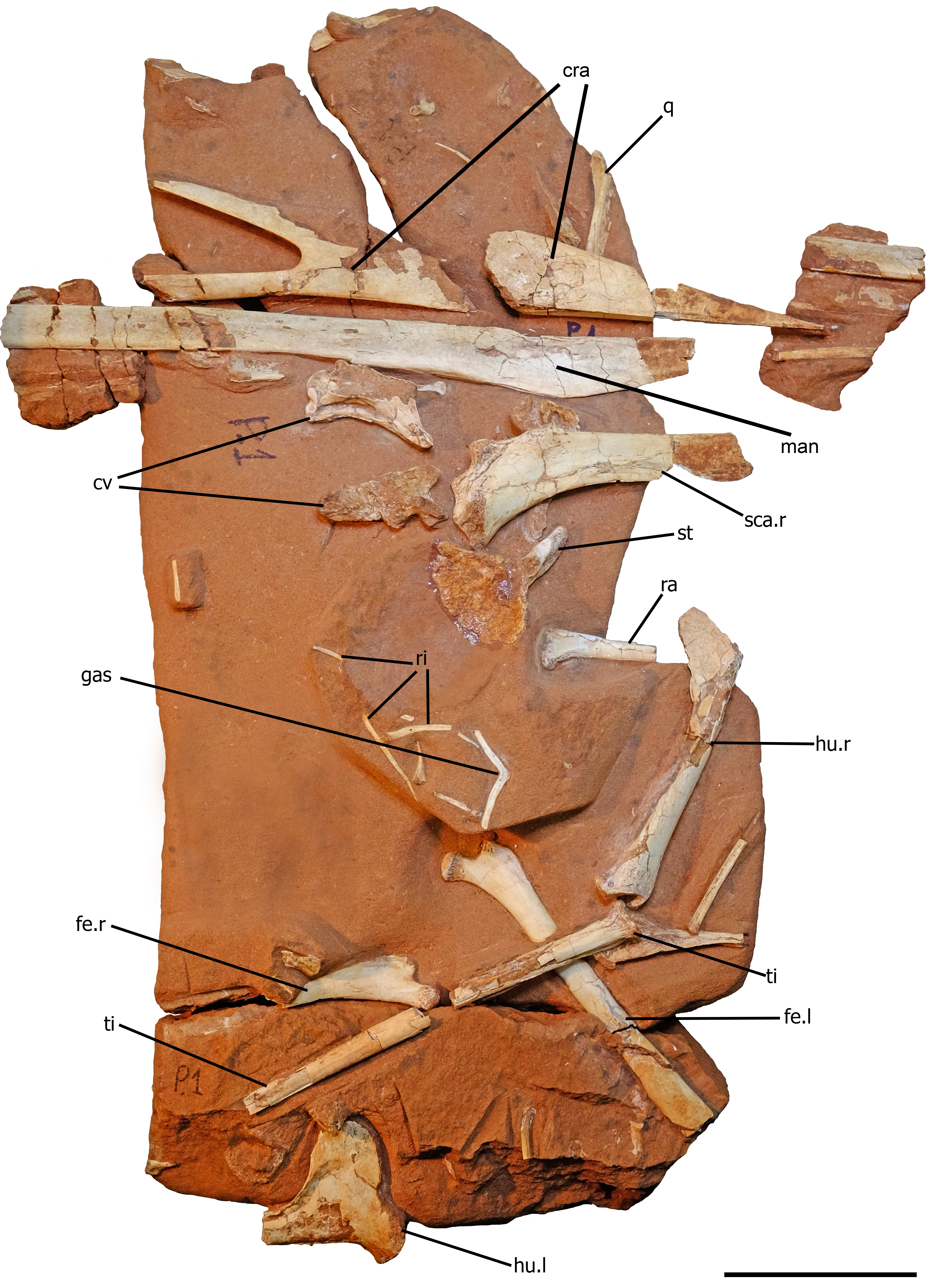 Figure 3. Holotype of Keresdrakon vilsoni gen. et sp. nov. (CP.V 2069). Skull and lower jaw are presented in right lateral view. Abbreviations: cra - skull, cv - cervical vertebra, fe - femur, gas - gastralia, hu - humerus, man - mandible, q - quadrate, ra - radius, ri - ribs, sca - scapula, st - sternum, ti - tíbia; l - left, r - right. Scale bar = 100mm.